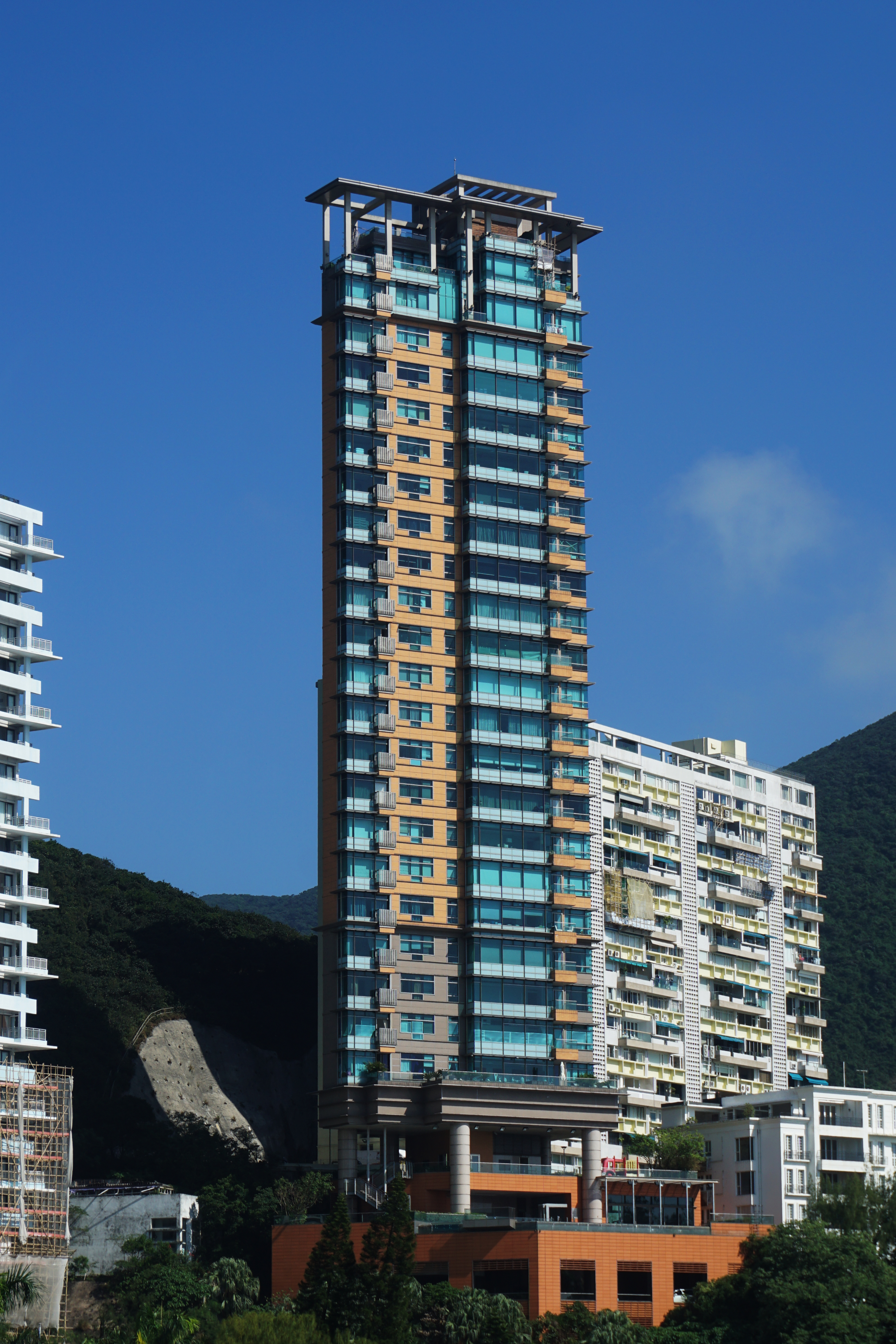 Grosvenor Place in Repulse Bay, Hong Kong.